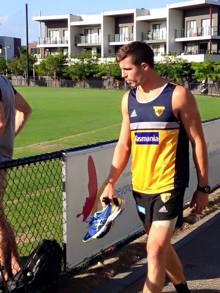 Stratton at open training 2015